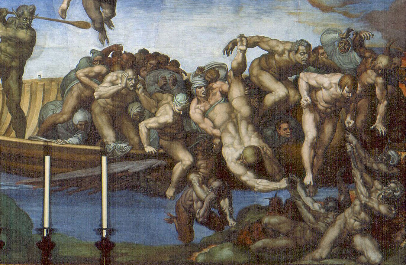 Detail form The Last Judgement